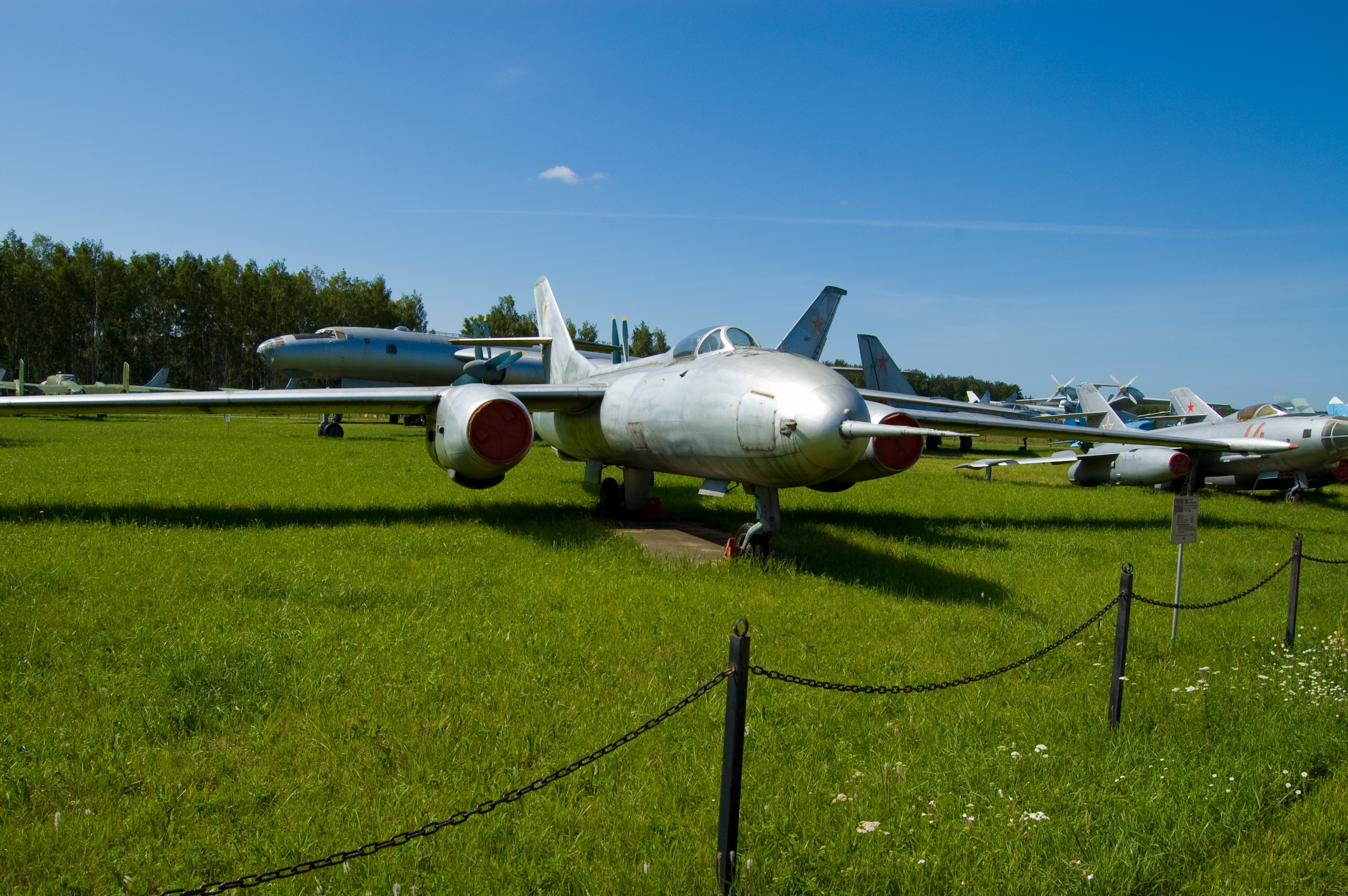 High altitude reconnaissance plane Yak-25RV in Monino.